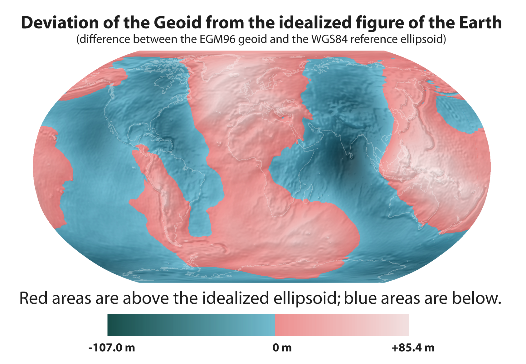 Deviation of the Geoid from the idealized figure of the Earth.